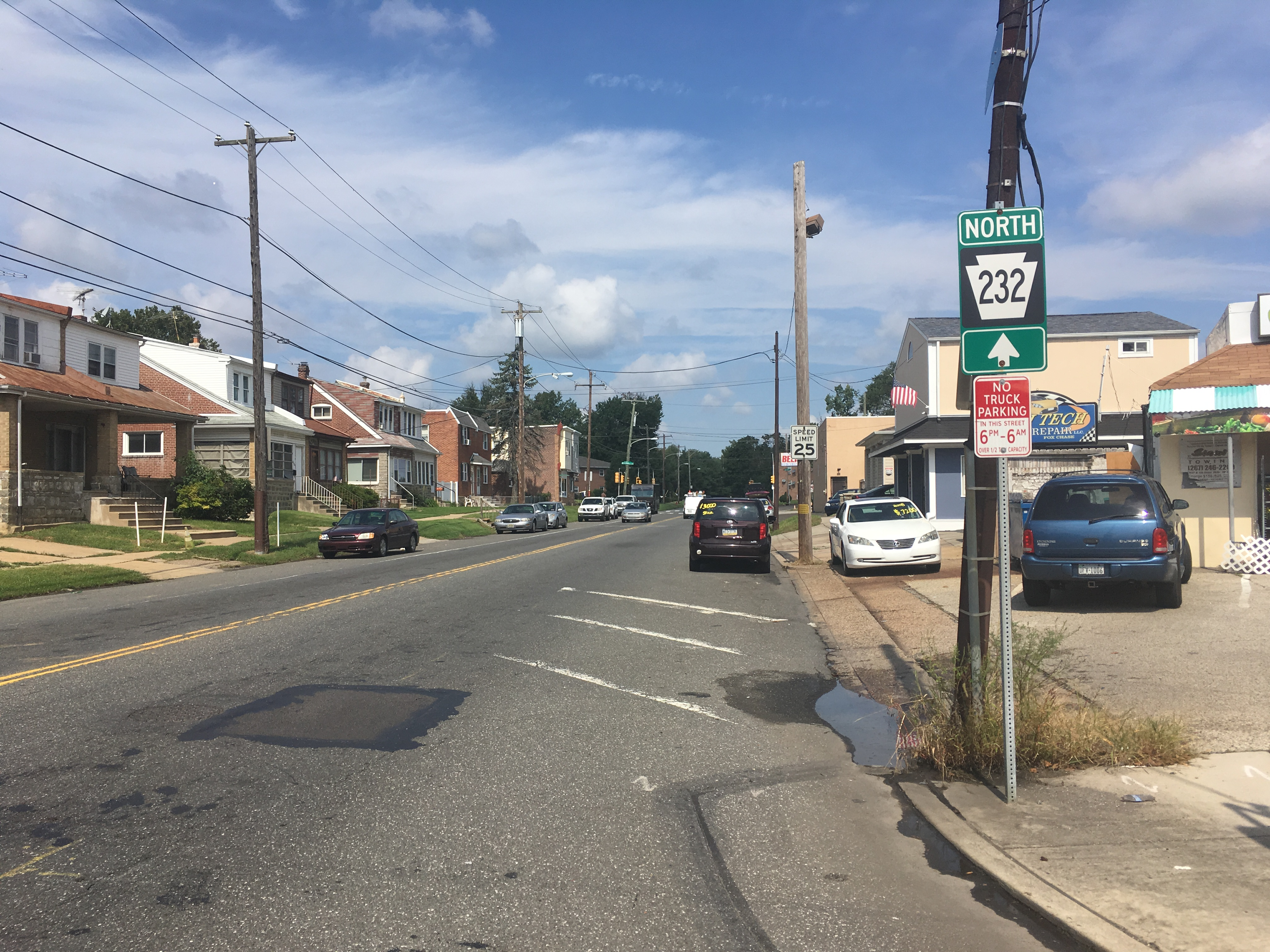 Northbound Pennsylvania Route 232 (Oxford Avenue) past the intersection with Verree Road in Philadelphia, Pennsylvania